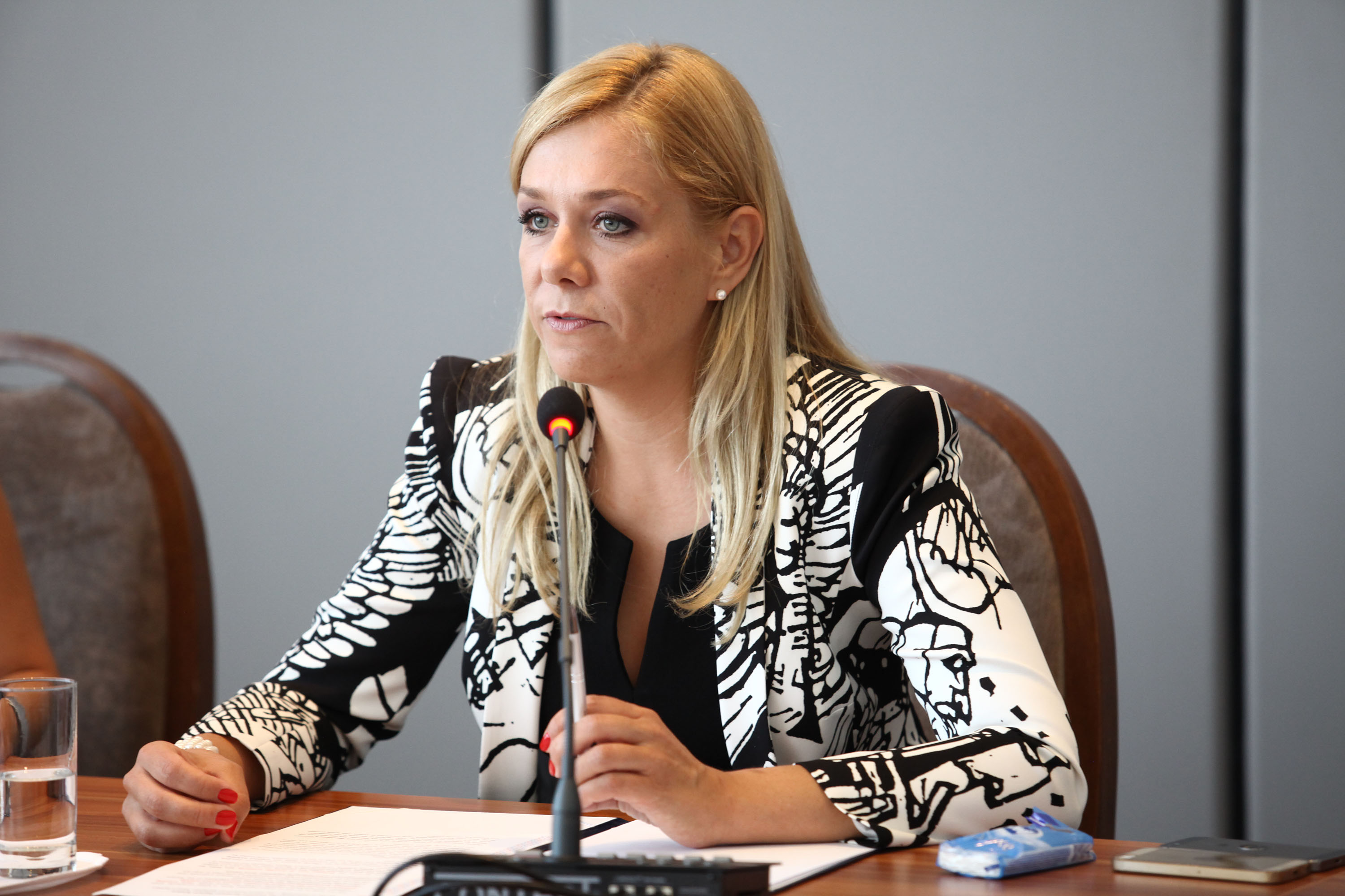 Slovakia, Mrs. Denisa Sakova, Ministry of Interior, State Secretary Photo: Andrej Klizan